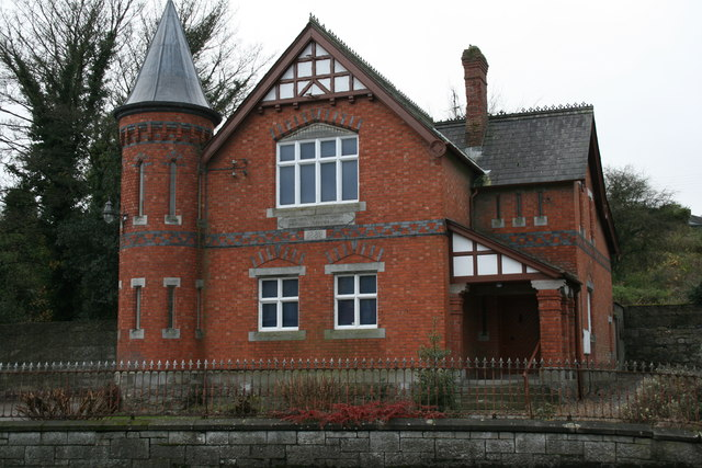 Orange Hall, 28 North Road, Monaghan The Johnson & Madden Memorial Orange Hall, built in 1882. This is a simple red brick building with a round corner turret.